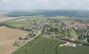 Vegetable Labyrinth (Vigy - France)